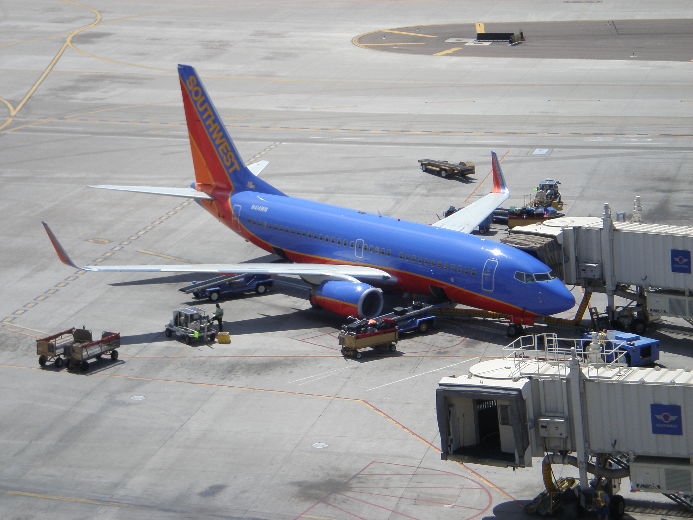 A Southwest Airlines plane at gate D6 of Terminal 4 at PHX